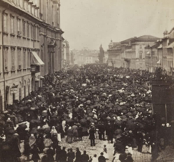 Karol Beyer - Corpus Christi procession on Krakowskie Przedmieście